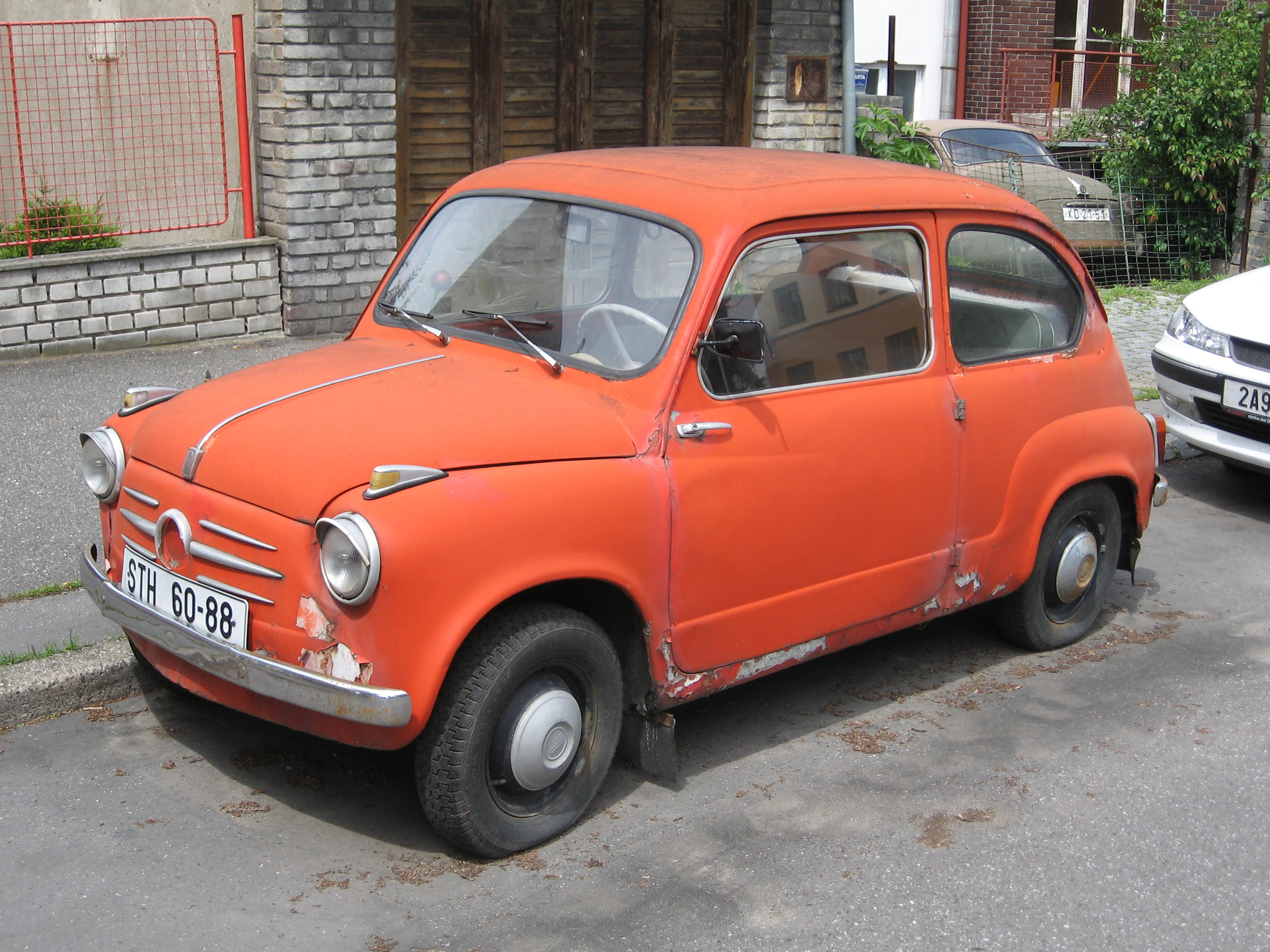 Fiat 600